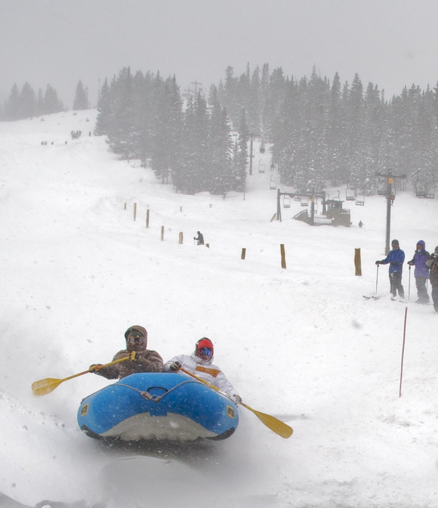 Rafting in snow on Monarch Mountain, just before entering an artificial icewater pond